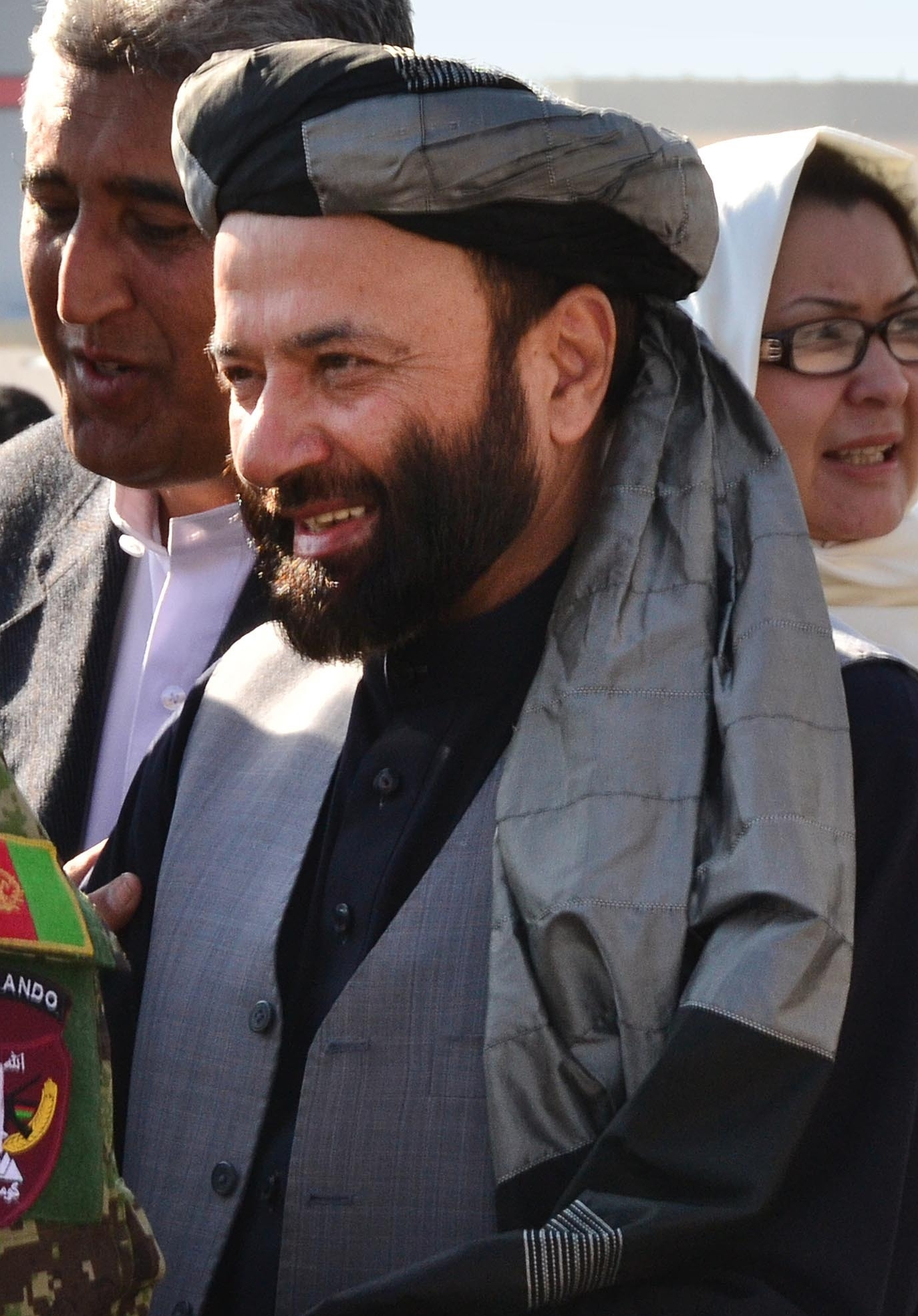 Cropped photograph of Abdul Hadi Arghandiwal; an Afghan politician. Afghan Economy Minister Abdul Hadi Arghandiwal and Afghan Brig. Gen. Zafar, 4th Brigade, 205th Corps commanding general, greet each other before the Unity of Effort conference held by Uruzgan Provincial Governor Amir Mohammad Akhunzada in Tarin Kot, Afghanistan, Oct. 20, 2012. Discussion at the conference centered on the progress, development and security objectives of the Afghan government, as well as post-transition security, reconciliation, and the economy in Southern Afghanistan. The conference was the first of its kind to be held in the area